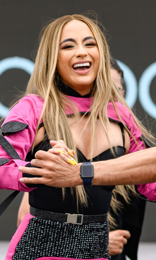 Ally Brooke performing live at the Wango Tango Village in Dignity Health Sports Park in Carson, California, on Saturday, June 1, 2019.